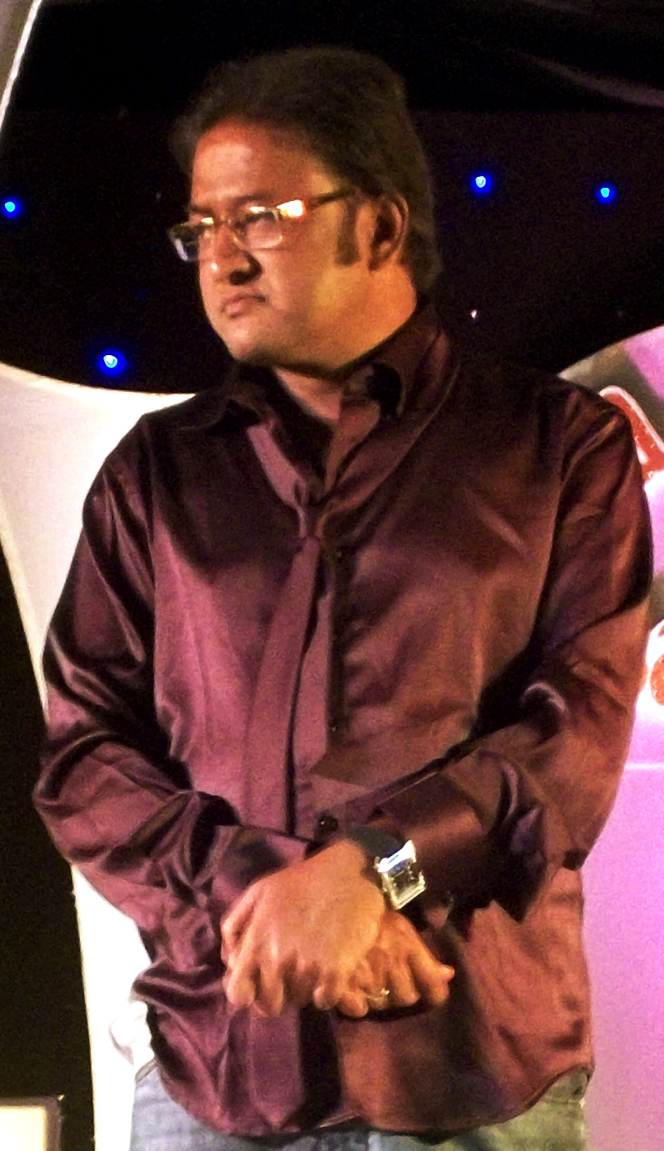 Odia film actor, director, producer Hara Patnaik.